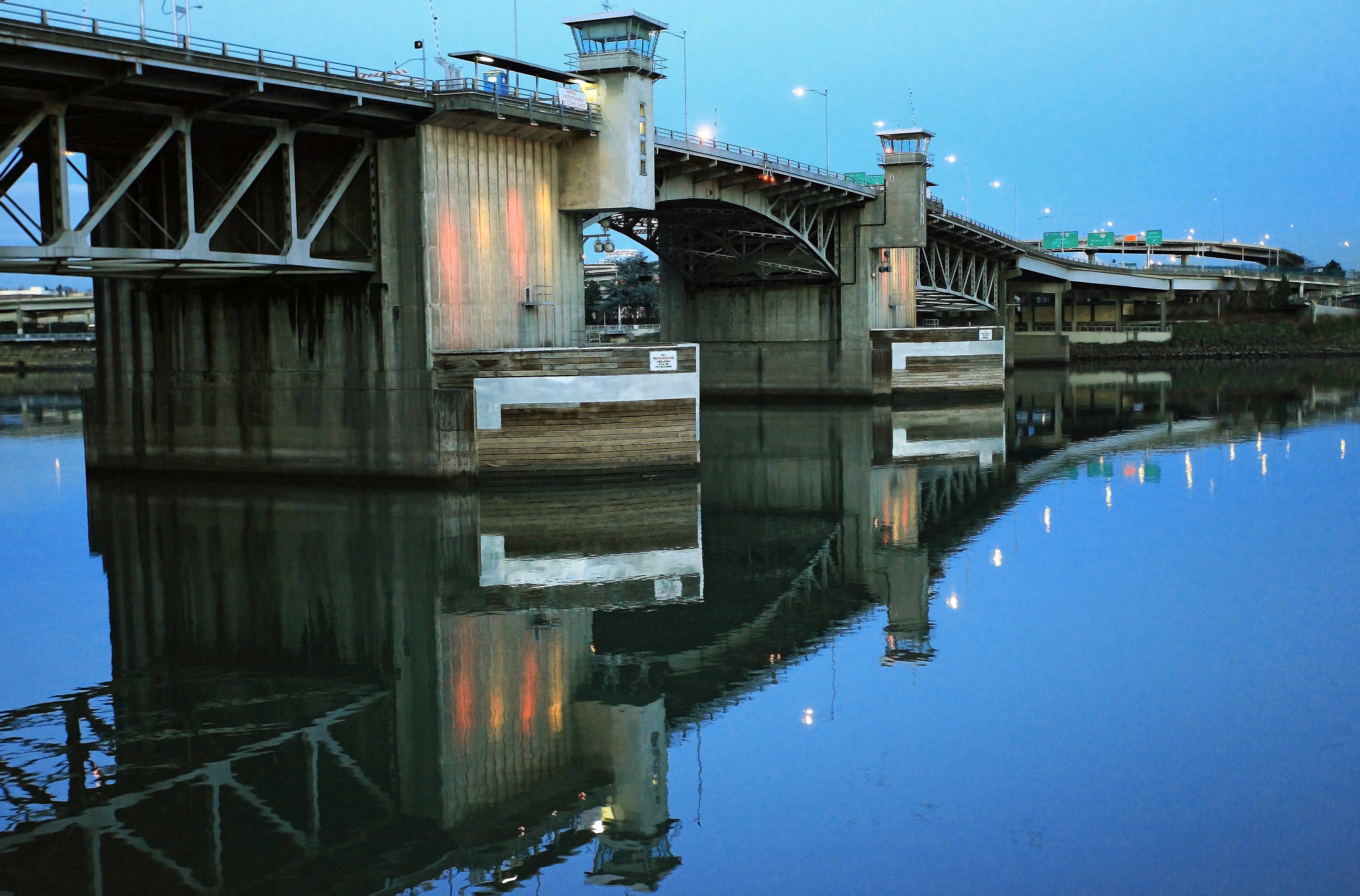 Morrison Bridge spanning the Willamette River in Portland, Oregon, USA.